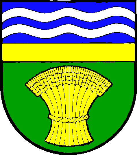 Coat of arms of the former Amt (county) Kirchspielslandgemeinde Marne-Land in Schleswig-Holstein, Germany.